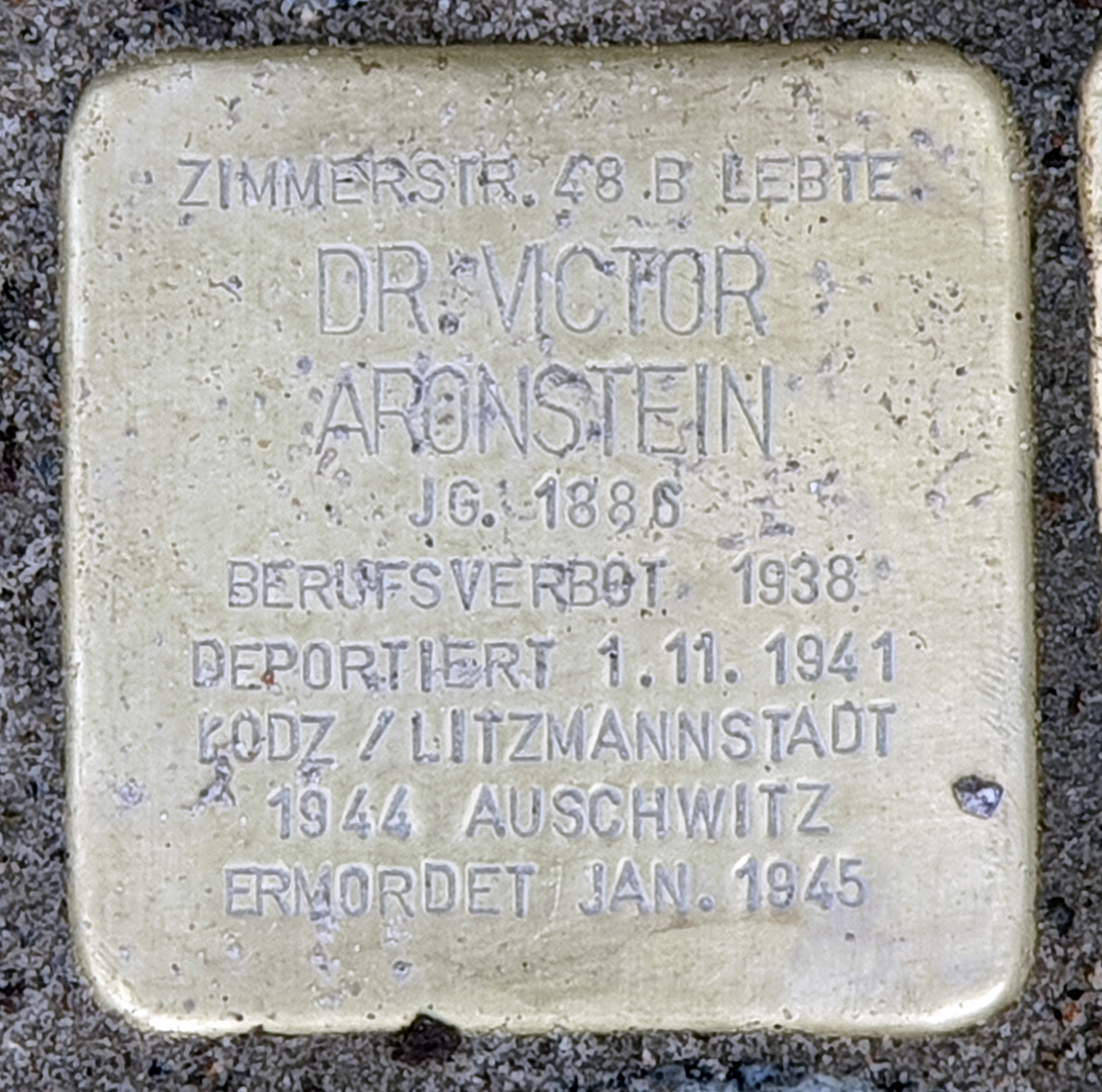 "Stolperstein" (stumbling block), Victor Aronstein, Zimmerstraße 48B, Berlin-Mitte, Germany